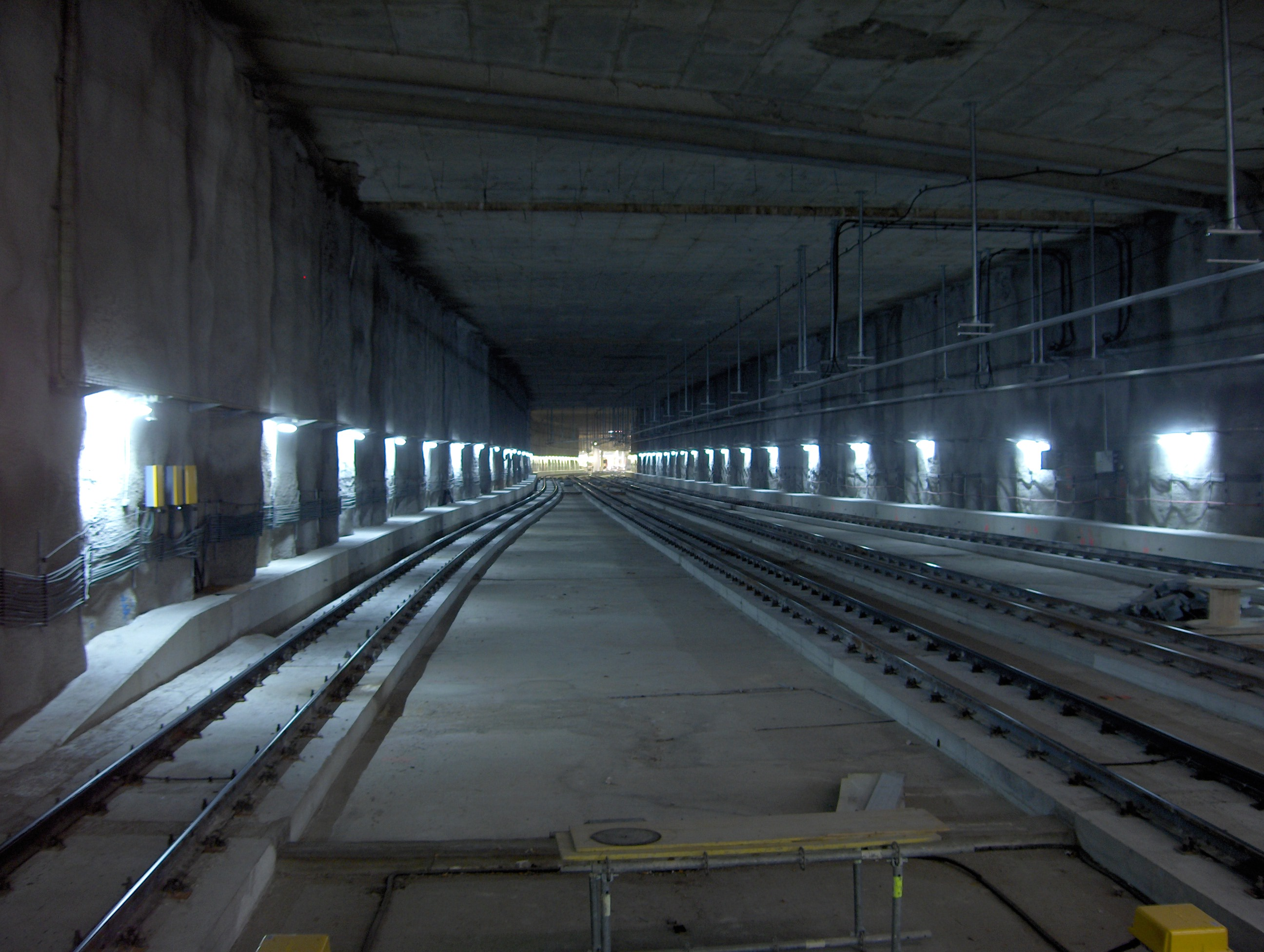 View from the station of Son Fuster in the direction of the Estació Intermodal